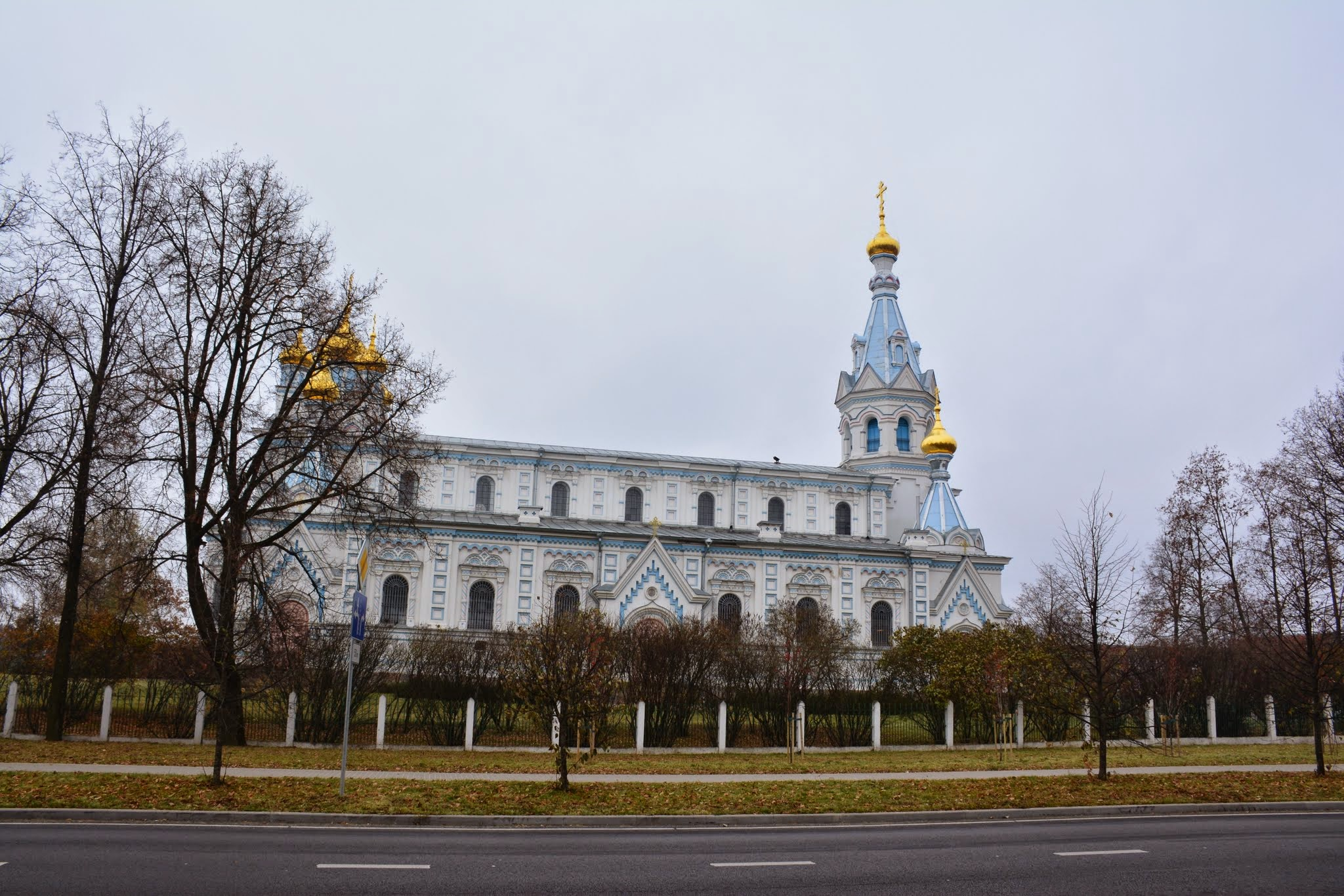 Борисоглебский собор